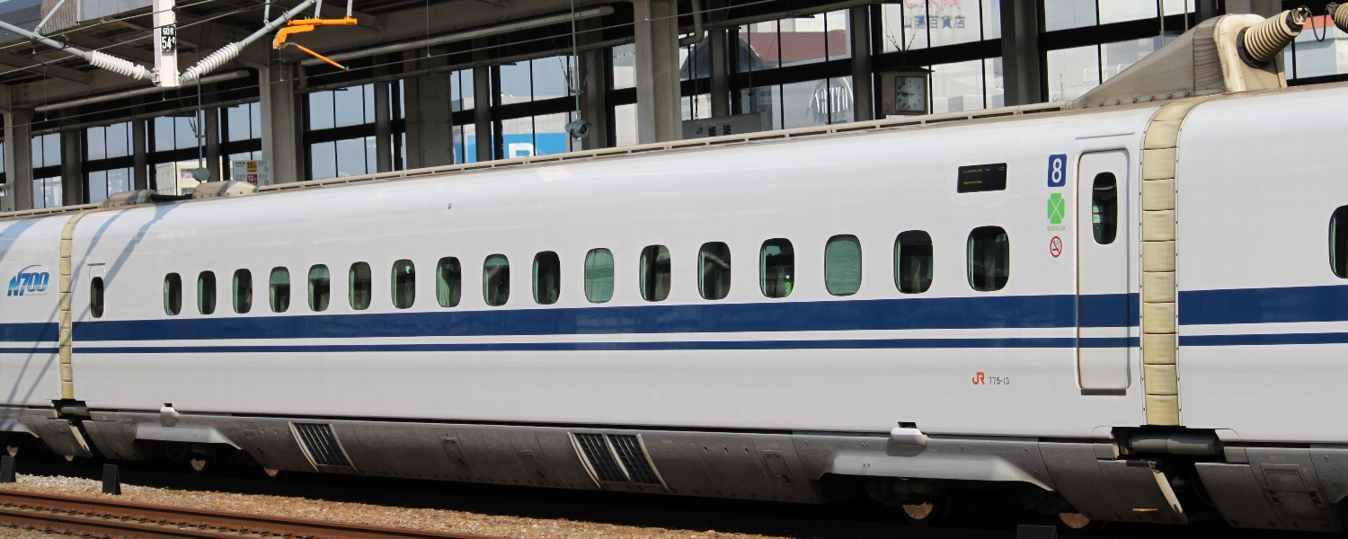 Shinkansen series N700(775-13) in Himeji Station